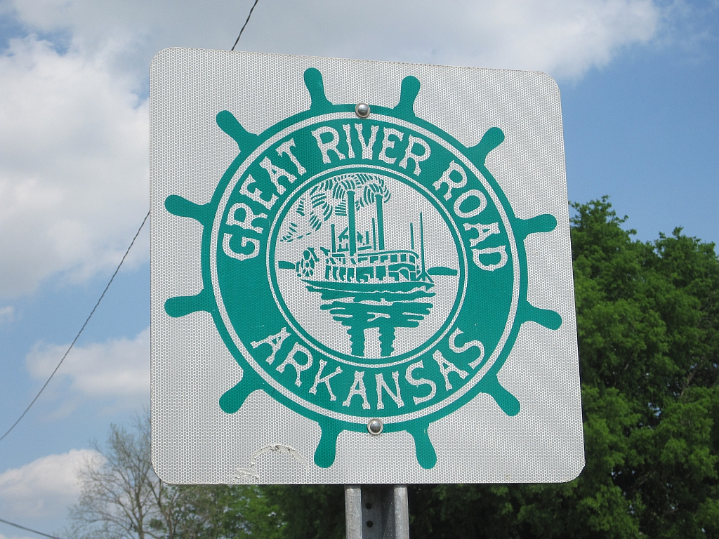 Great River Road in Phillips County Arkansas